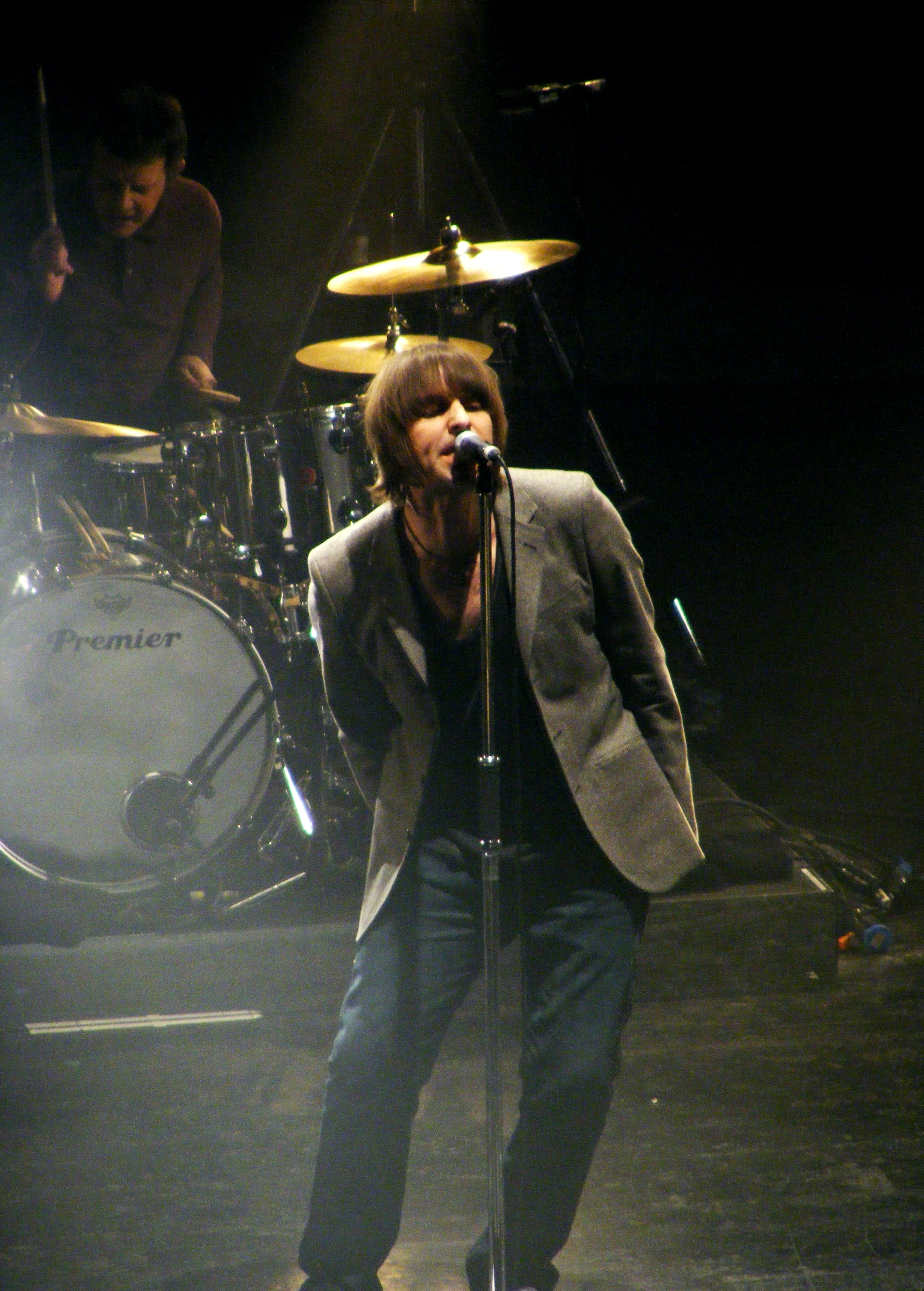 Beady Eye at the Apollo Theatre, Manchester, on Monday 7th of March 2011